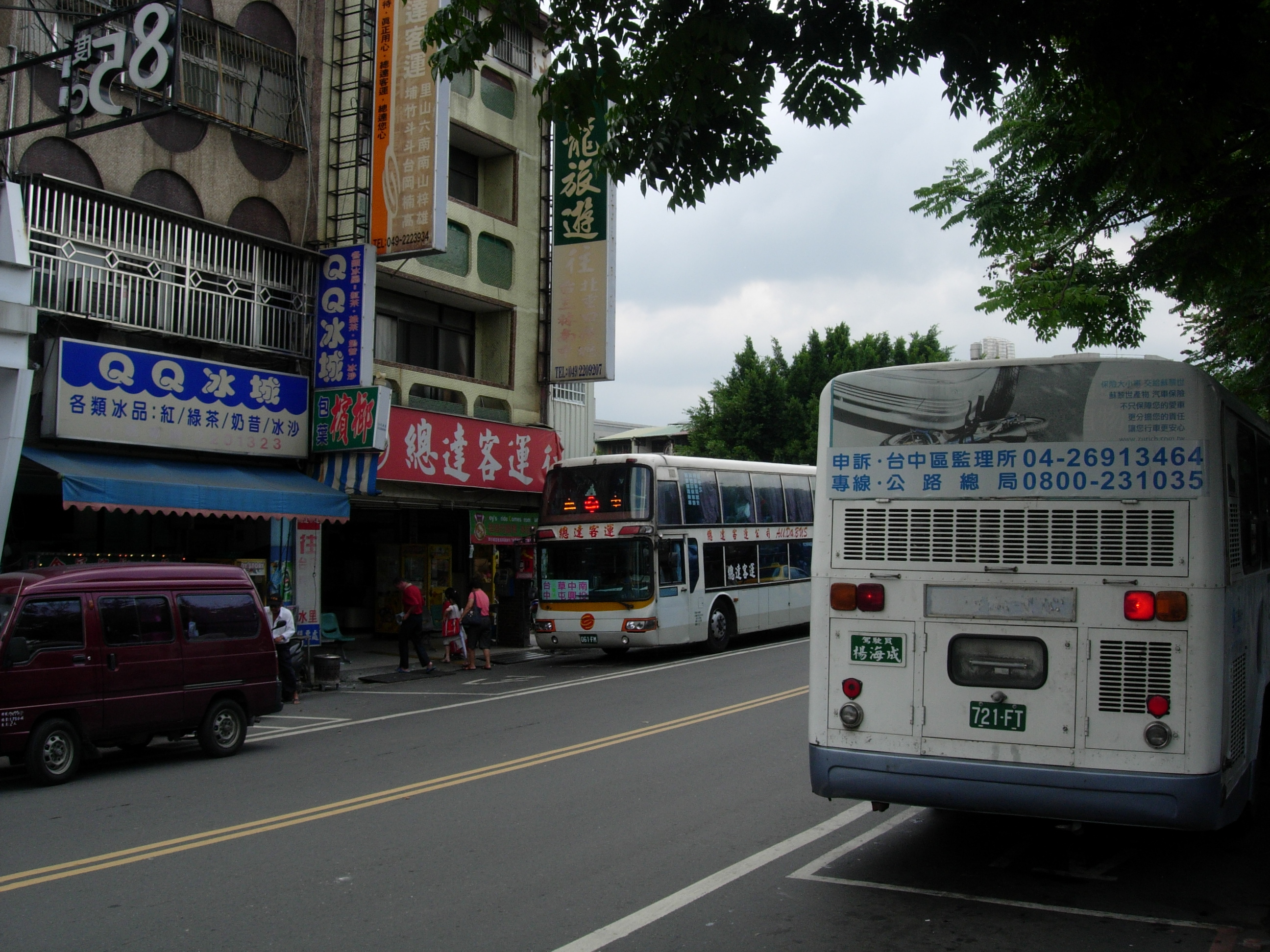 Nantou Station, All Da Bus